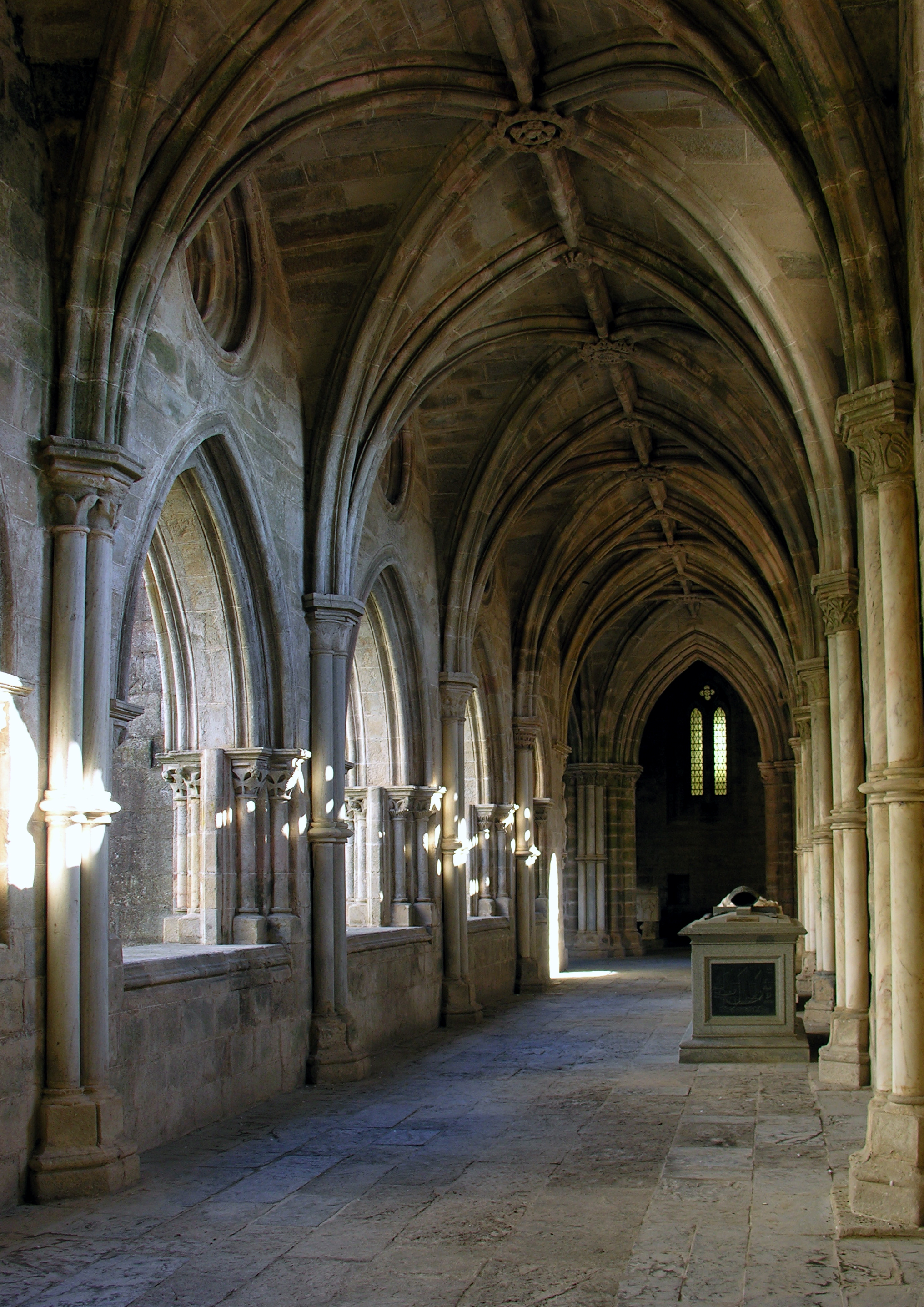 Sé Catedral de Évora, Portugal